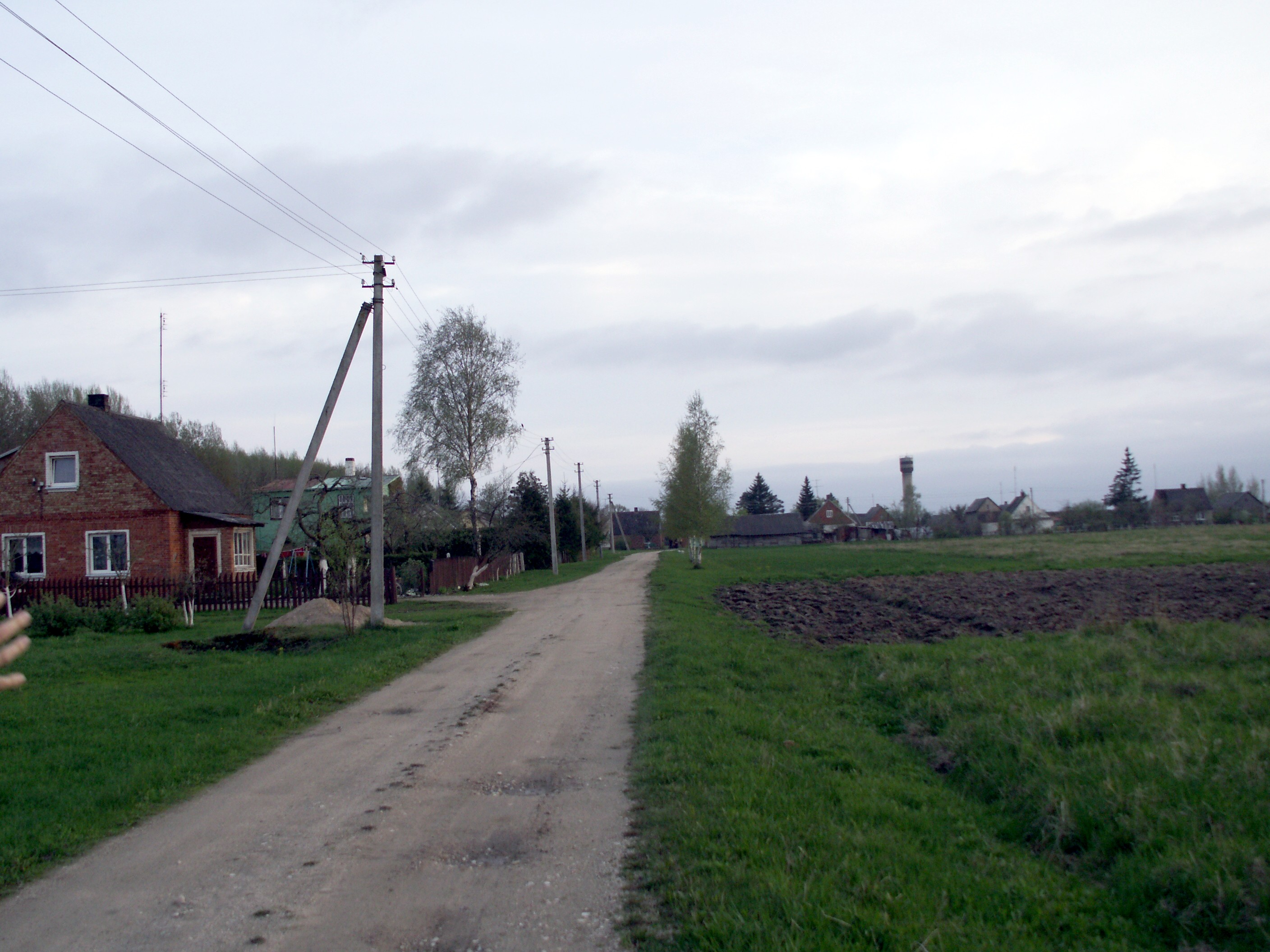 Kraštai, Lithuania